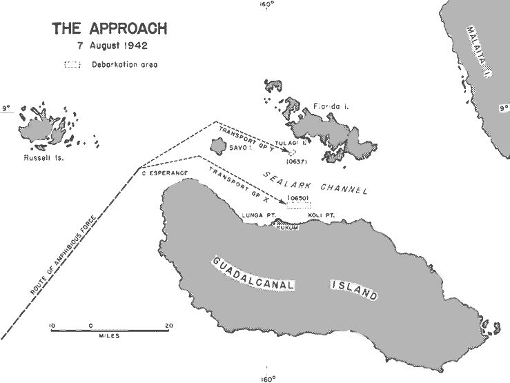 Map showing the the approach of the landing forces off Guadalcanal, 7 August 1942.